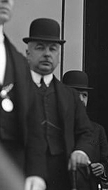 Rumbeyoglu Fahreddin (Cropped image)